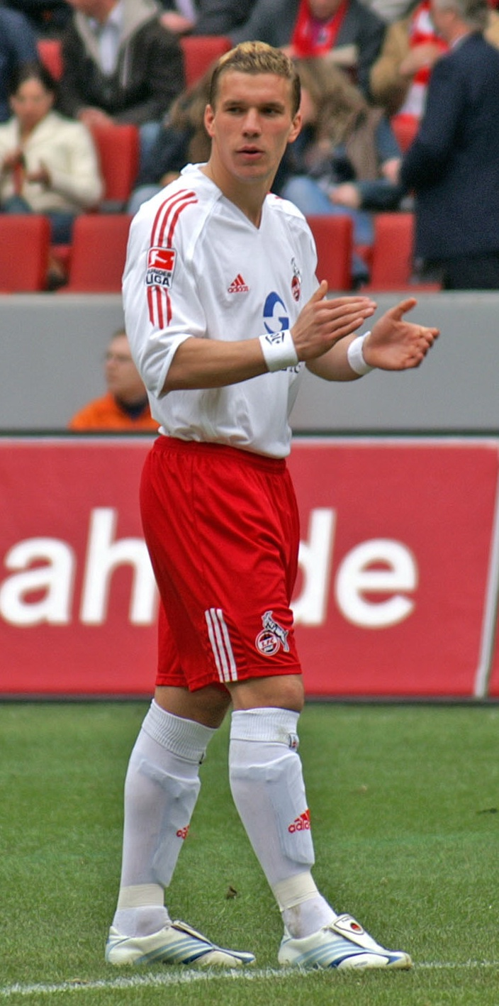 Lukas Podolski during the game FC Cologne vs. VfL Wolfsburg.